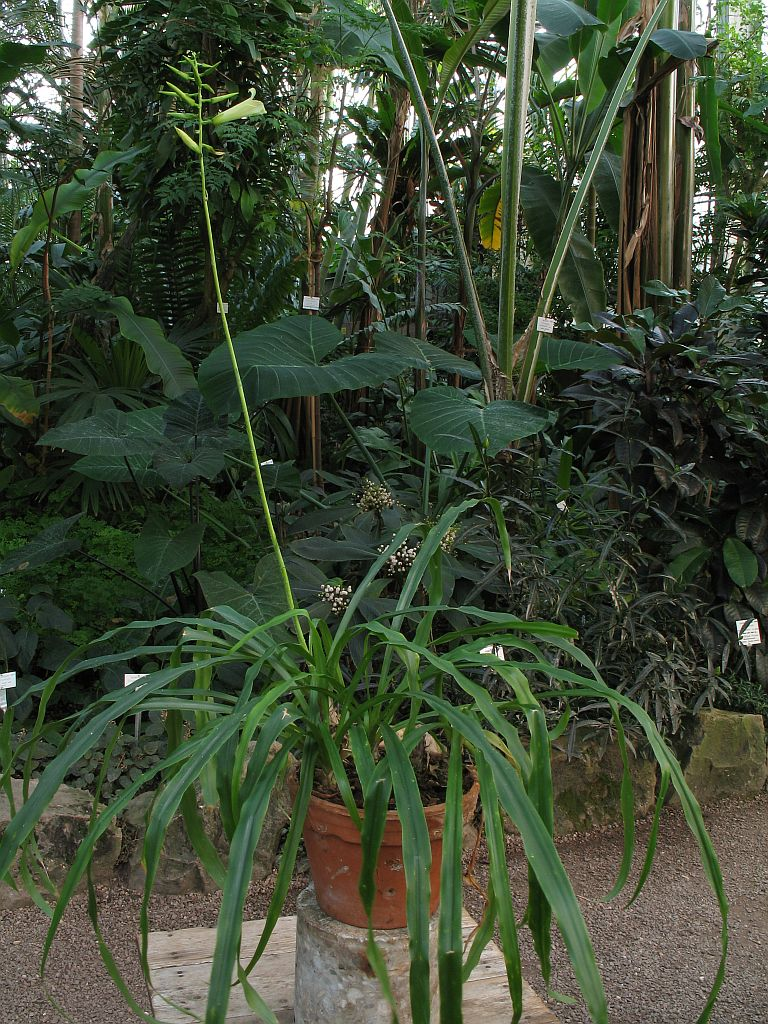 Pitcairnia loki-schmidtiae type plant in cultivation at the Botanical Garden of Heidelberg, Germany.